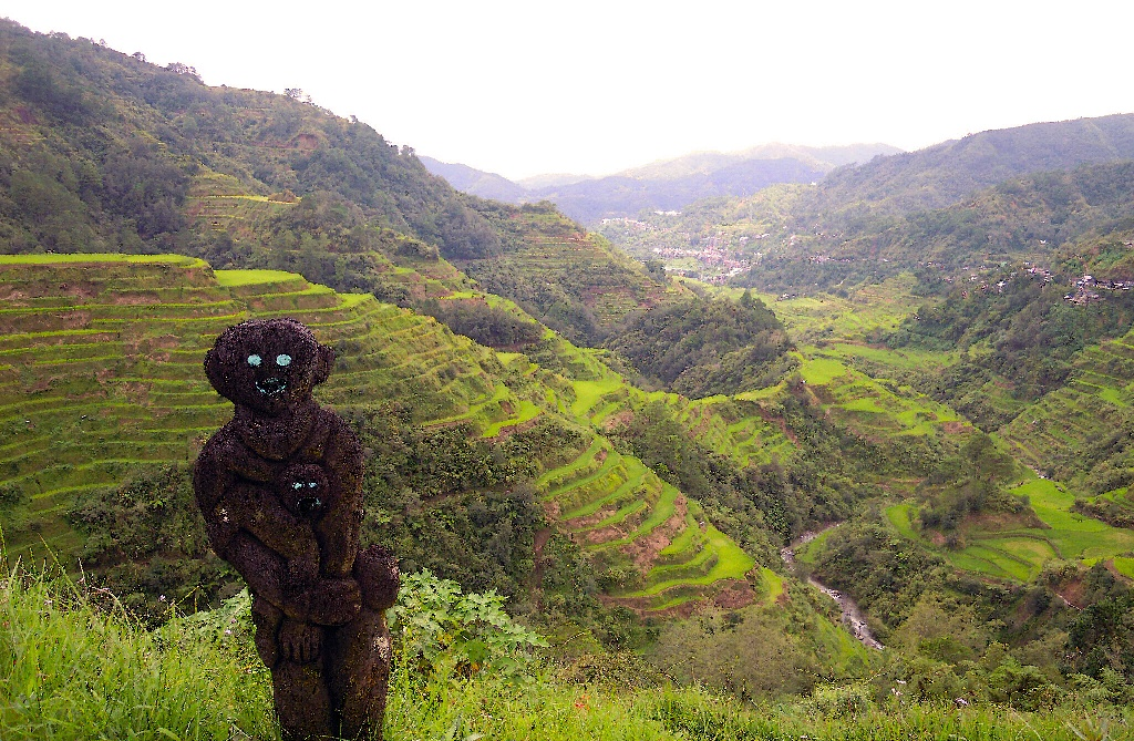 A UNESCO heritage site located in Ifugao. Approximately 400-500 years old and man made.